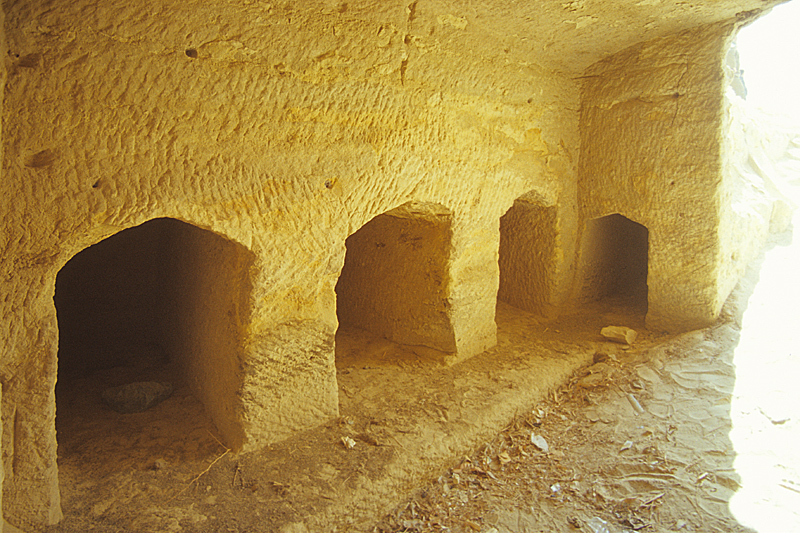 North wall in the rock tomb south of the pyramid of Sesostris II, el-Lahun, el-Fayyum, Egypt